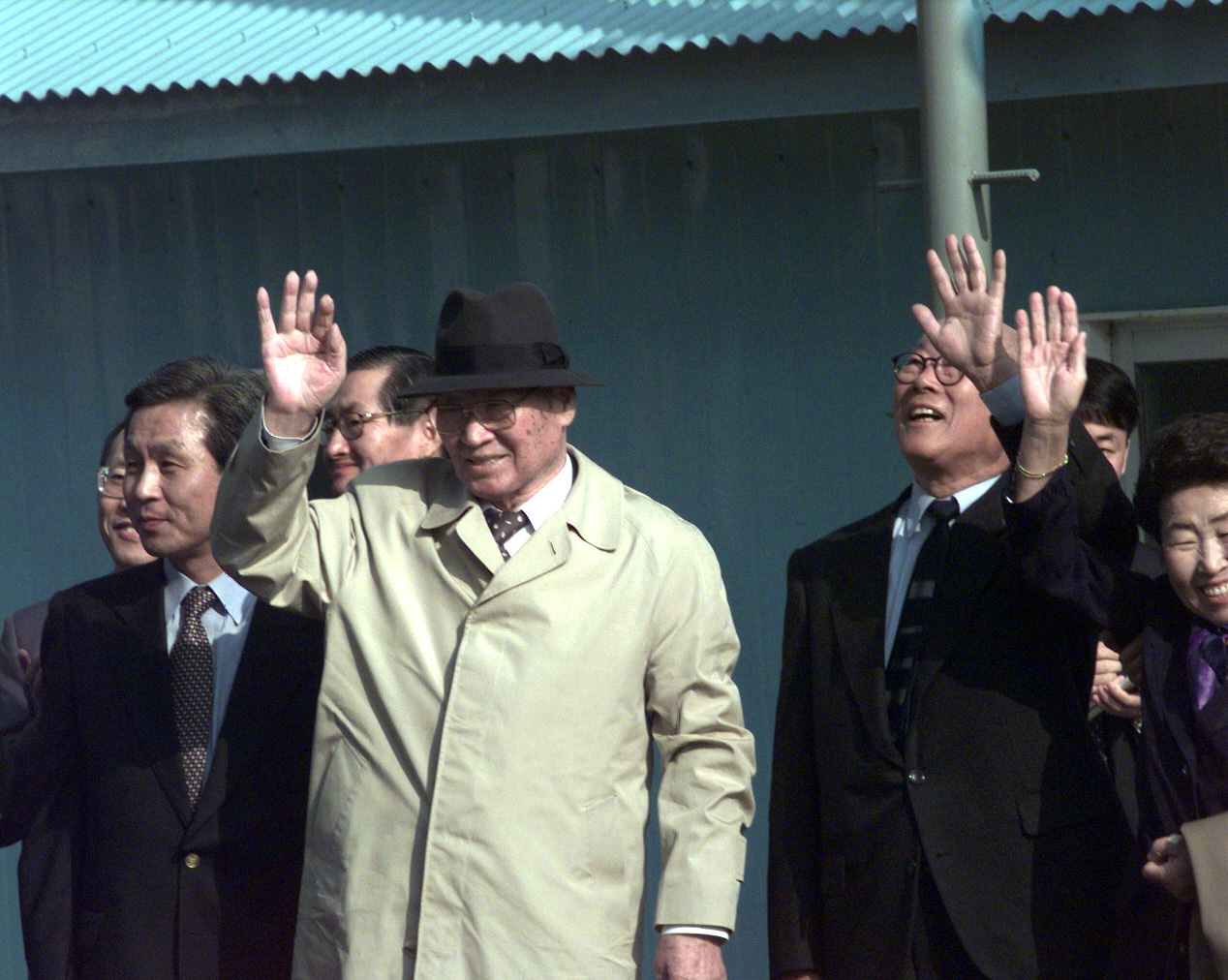 South Korean business tycoon Chung Ju-yung, founder and honorary chairman of Hyundai Group, waves to the guests and press at Panmunjom, Republic of Korea, Oct. 27, 1998. Mr. Chung donated 501 head of cattle and the 50 vehicles to North Korea. Chung had given the North Koreans 500 head of cattle earlier this year in June.